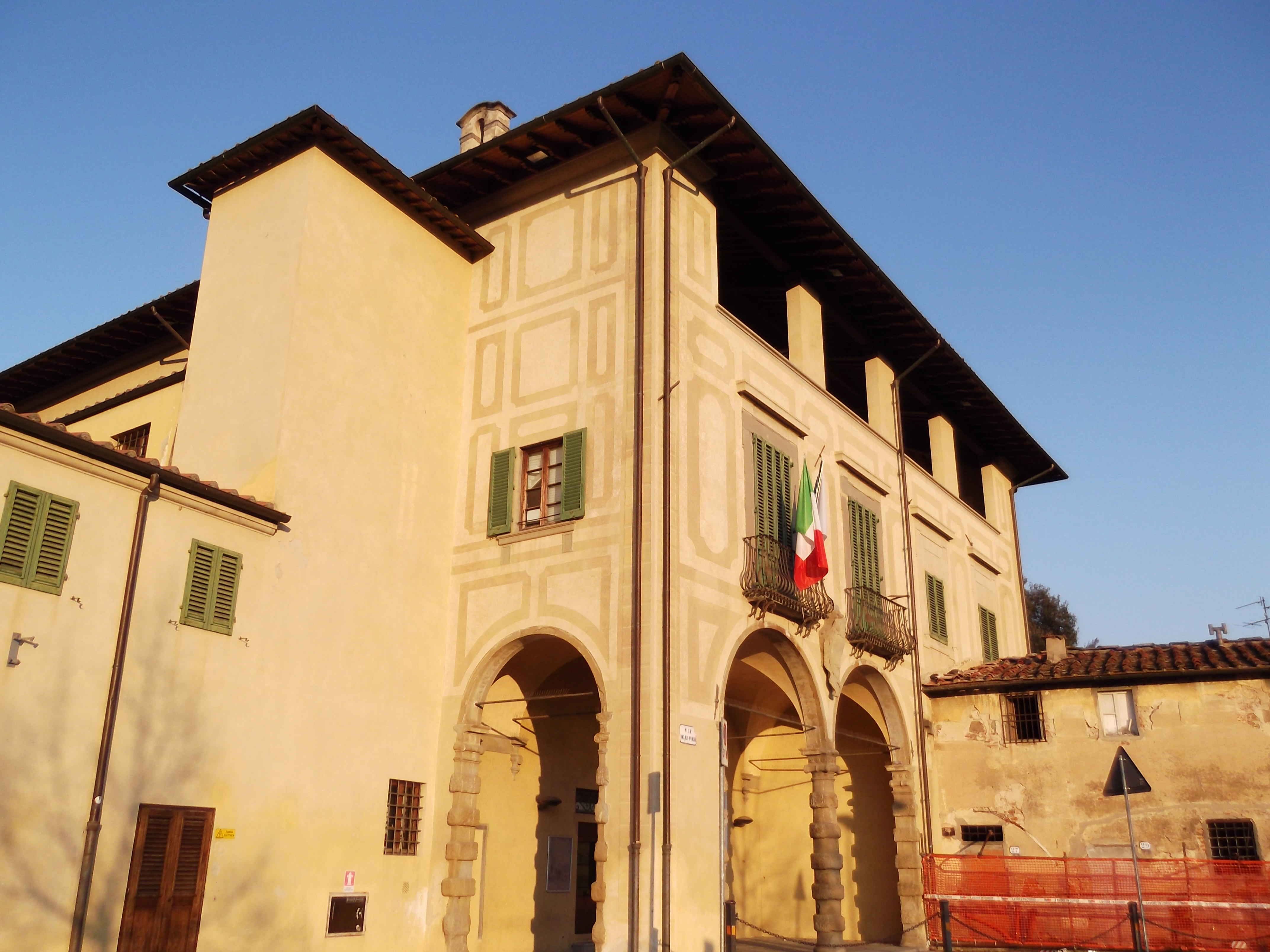 Villa Vogel, sede del quartiere 4